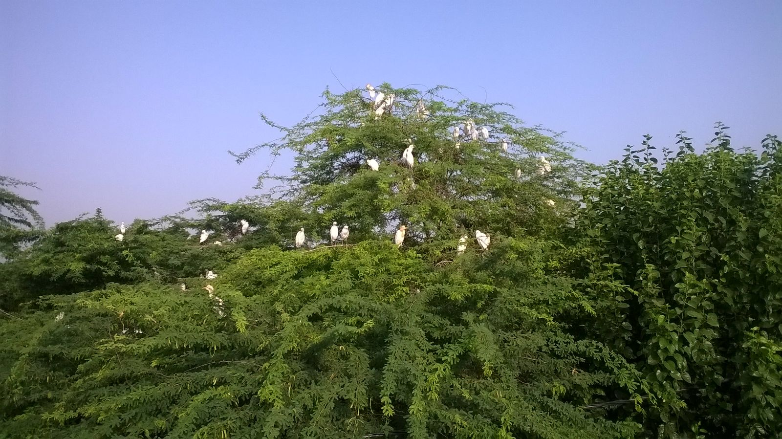 this is the colony of egert birds in jakhauli.